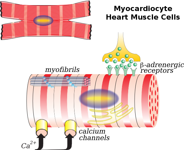 Graphic of a Myocardiocyte (Heart Muscle Cell), including organelles and cell membrane functions.